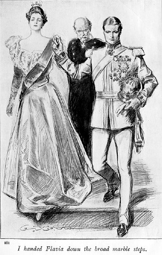 "I Handed Flavia Down the Broad Marble Steps", frontispiece to The Prisoner of Zenda by Anthony Hope.